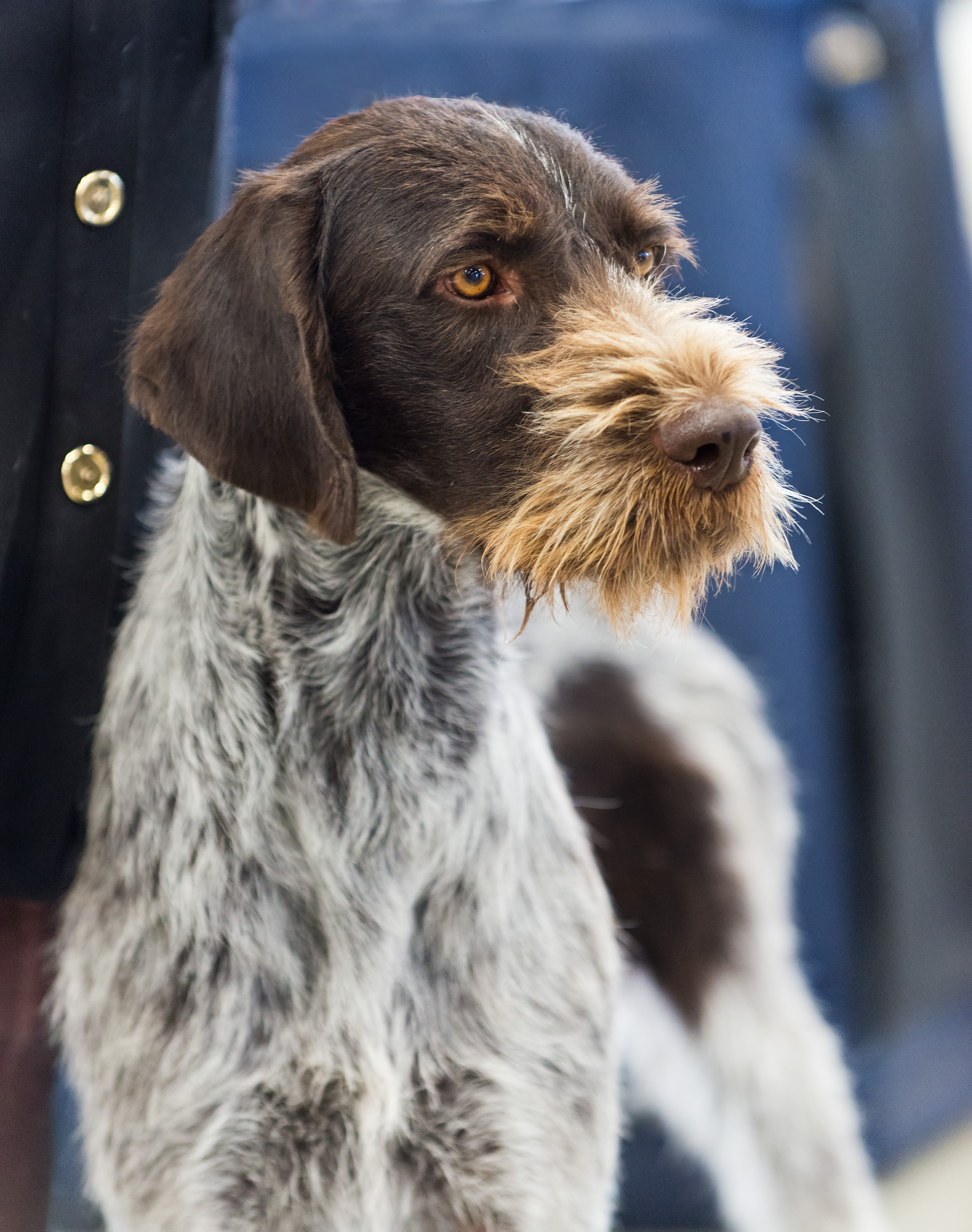 German Wirehaired Pointer /